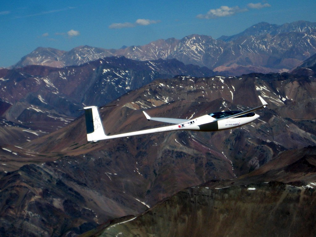 Sebastian Kawa piloting a Diana 2 glider over the Andes. Training before World Grand Prix.